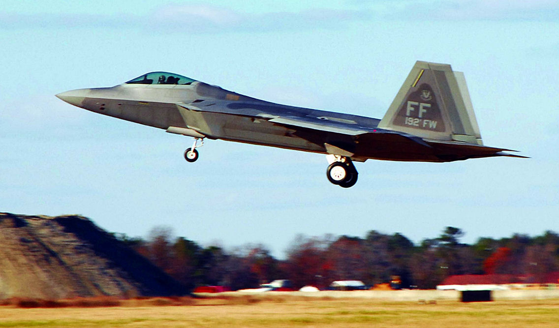 An F-22A Raptor with 192nd Fighter Wing tail markings takes off from a Langley AFB, VA runway Dec. 17, 2007. The 192nd FW, the first Guard unit to fly the Raptors, is integrated with 1st Fighter Wing and is part of the Air Force’s Total Force Integration initiative. (U.S. Air Force photo/Master Sgt Carlos J. Claudio)